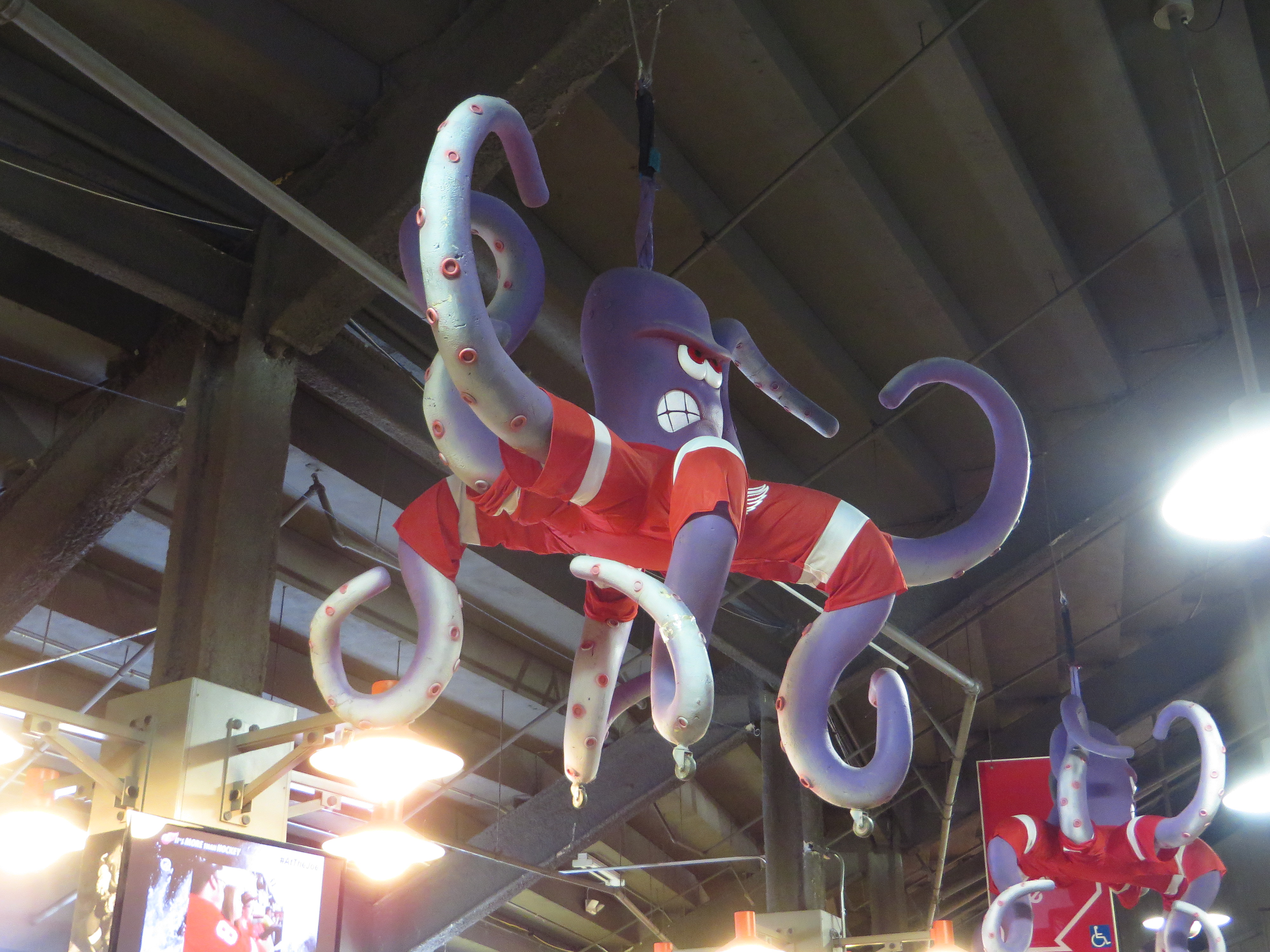 The Legend of the Octopus is a sports tradition during Detroit Red Wings home playoff games involving dead octopuses thrown onto the ice rink. The origins of the activity go back to the 1952 playoffs, when a National Hockey League team played two best-of-seven series to capture the Stanley Cup. Having eight arms, the octopus symbolized the number of playoff wins necessary for the Red Wings to earn the Stanley Cup. The practice started April 15, 1952, when Pete and Jerry Cusimano, brothers and storeowners in Detroit's Eastern Market, hurled an octopus into the rink of The Old Red Barn. The team swept the Toronto Maple Leafs and Montreal Canadiens en route to winning the championship, as well as winning two of the next three championships. Since 1952, the practice has persisted with each passing year. In one 1995 game, fans threw 36 octopuses, including a specimen weighing 38 pounds (17 kg). The Red Wings' unofficial mascot is a purple octopus named Al, and during playoff runs, two of these mascots are also hung from the rafters of the Joe Louis Arena, symbolizing the 16 wins now needed to take home the Stanley Cup. The practice has become such an accepted part of the team's lore, fans have developed various techniques and "octopus etiquette" for launching the creatures onto the ice.